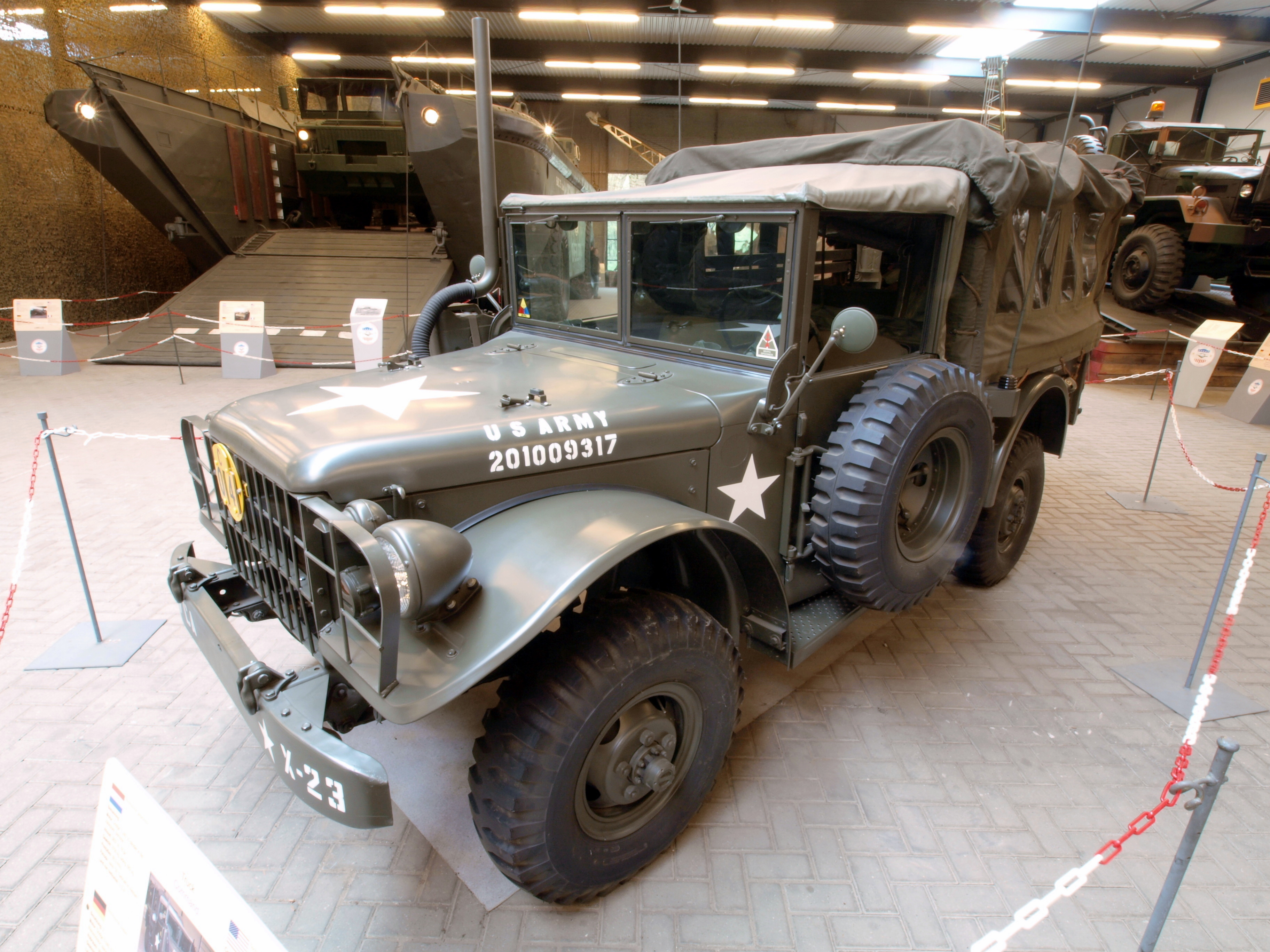 Photographed at the Marshallmuseum - Liberty Park - Oorlogsmuseum Overloon, The Netherlands.